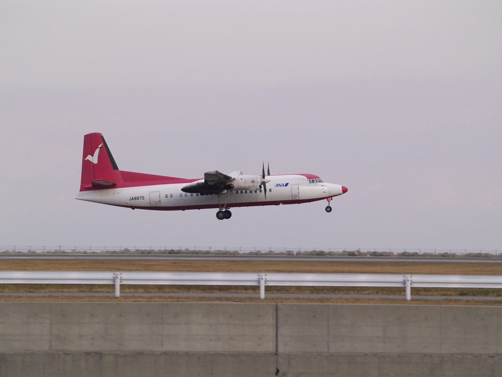 Air Central Fokker F50 (JA8875) at Oita Airport in December 2005